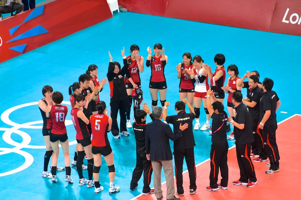 Japan women's national volleyball team at the 2012 Summer Olympics.